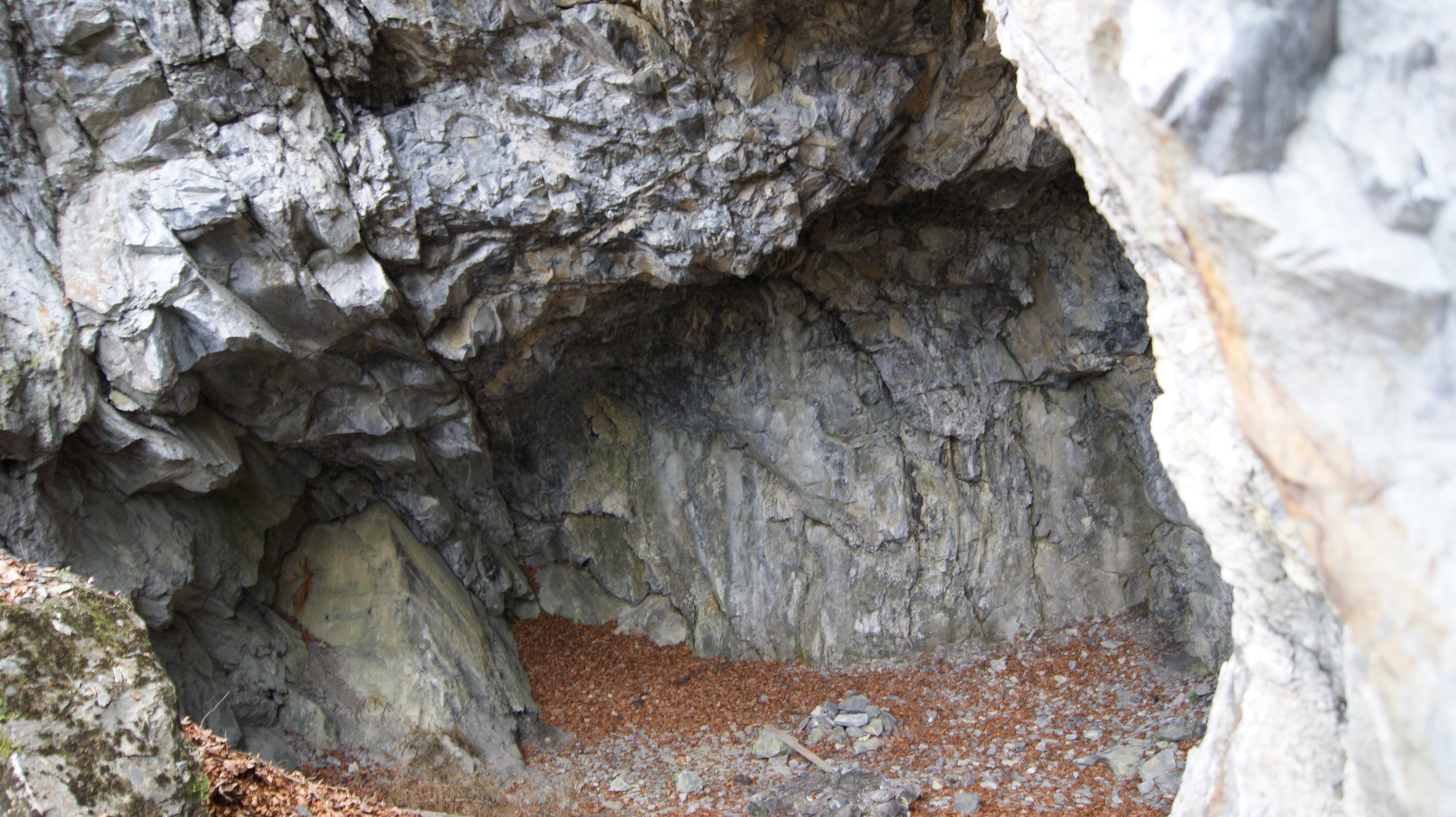 The Whetstone cave (Wetzsteinhoehle) is located in the sub-plot "Steinbruch" (meaning: "quarry") in the village Bizau in Vorarlberg, in the middle of the forest at about 700 masl in Austria. Below the Wetzsteinhoehle the Huettbach flows.